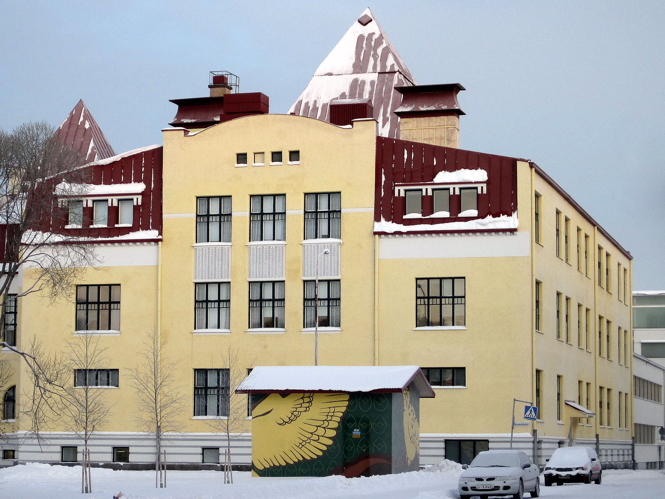 Oulun Suomalaisen Yhteiskoulun lukio (Finnish Co-education Lycée of Oulu)